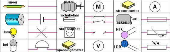 Power electronics symbols